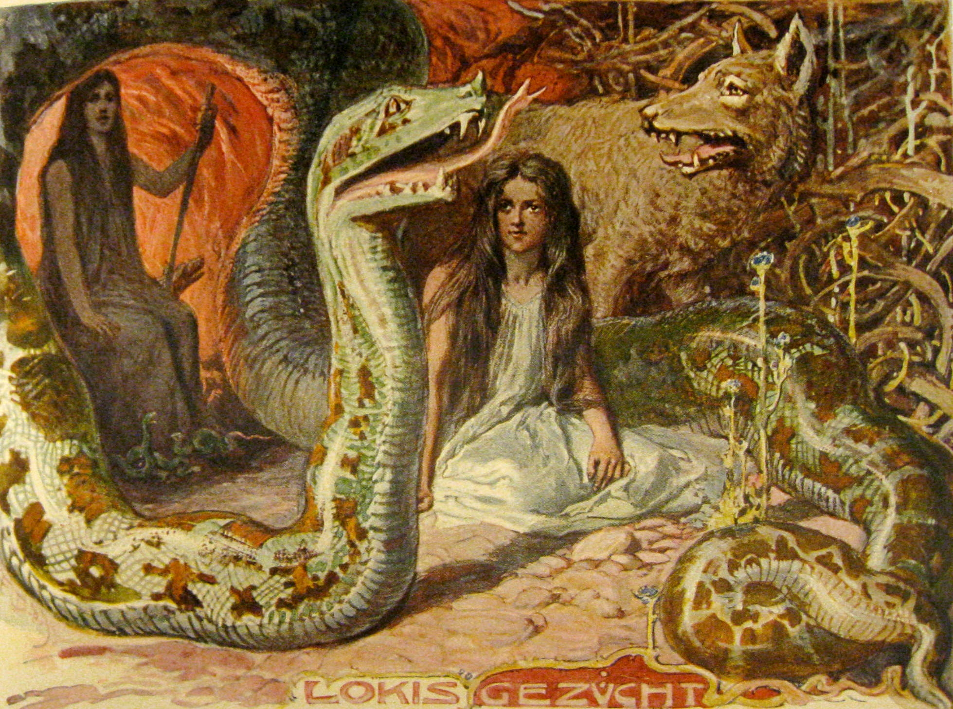 Lokis Gezücht. Loki's brood; Hel, Fenrir and Jörmungandr. The figure in the background is presumably Angrboða.